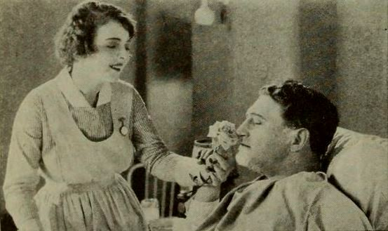 Still from the American film The Glorious Fool (1922) with Helene Chadwick and Richard Dix, on page 60 of the June 1922 Photoplay Magazine.